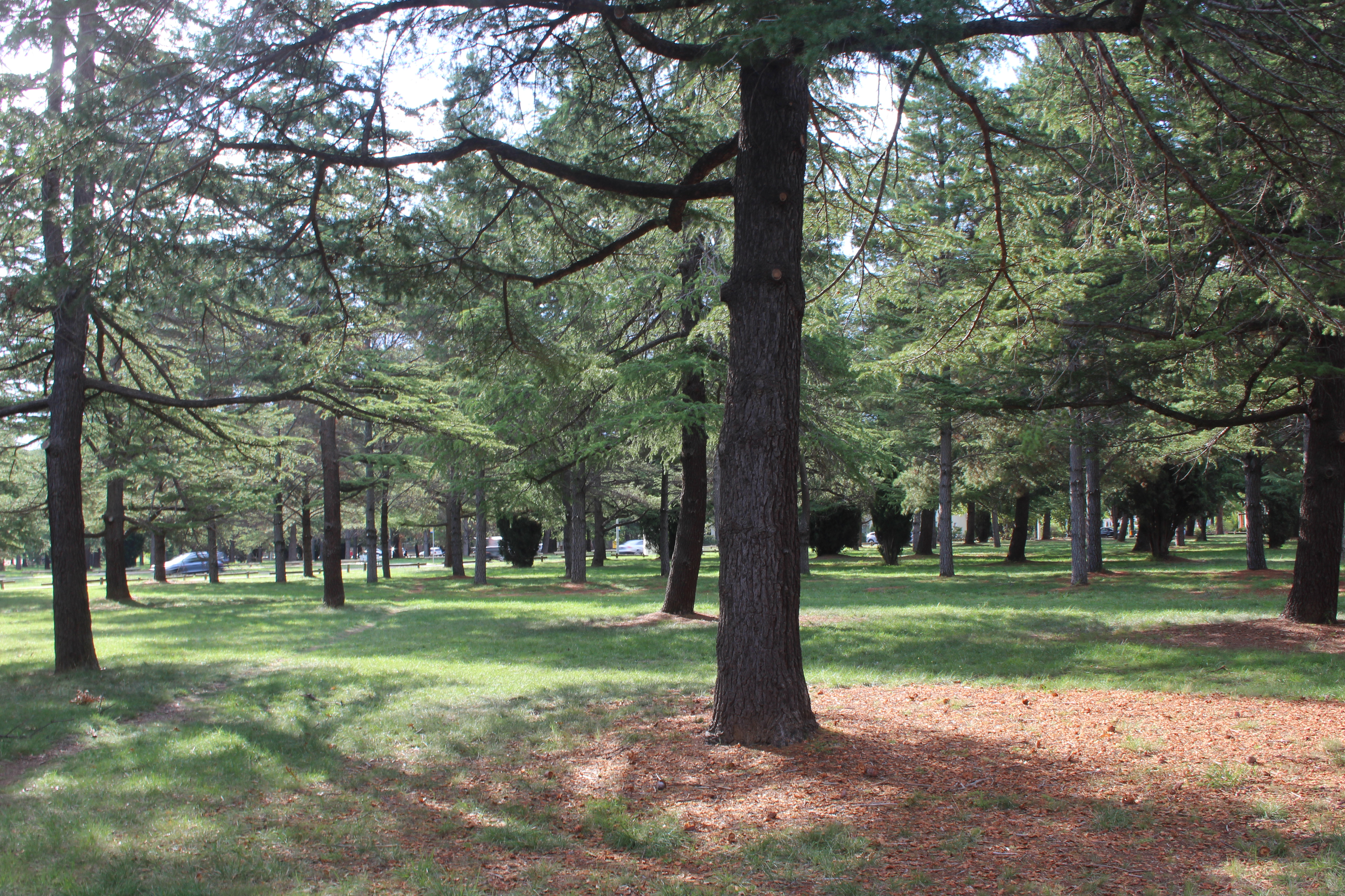 Haig Park, Braddon